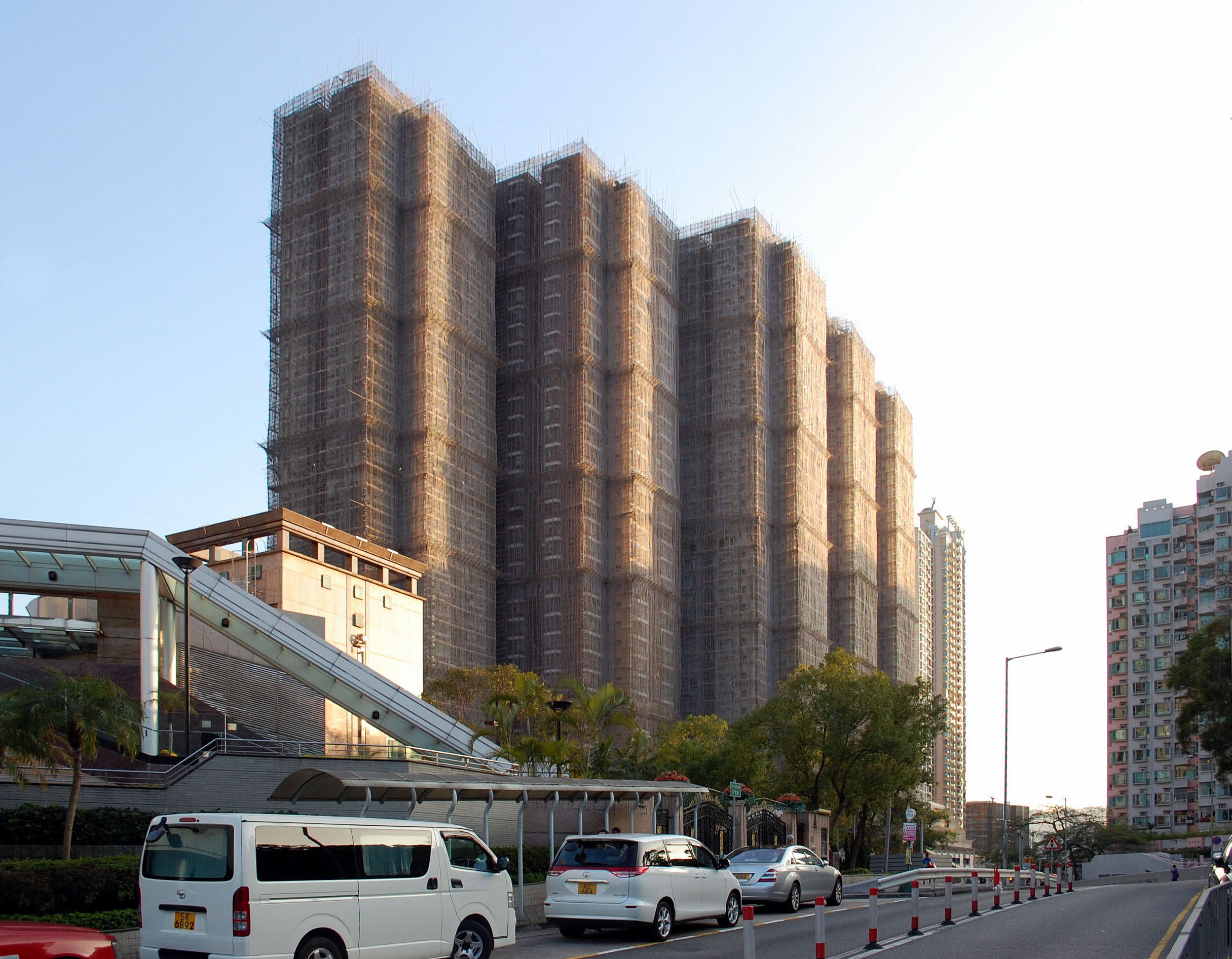 Jubilee Garden housing estate, Fo Tan, undergoing some kind of renovation. 中文（香港）: 銀禧花園火炭